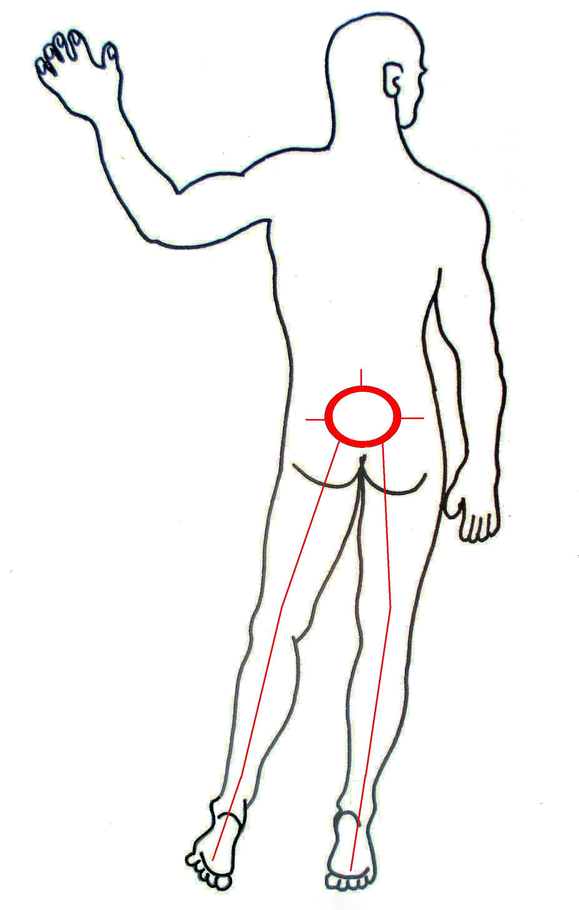 LBP and sciatica